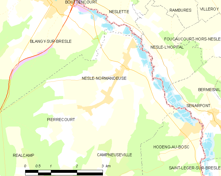 Map of French municipality Nesle-Normandeuse